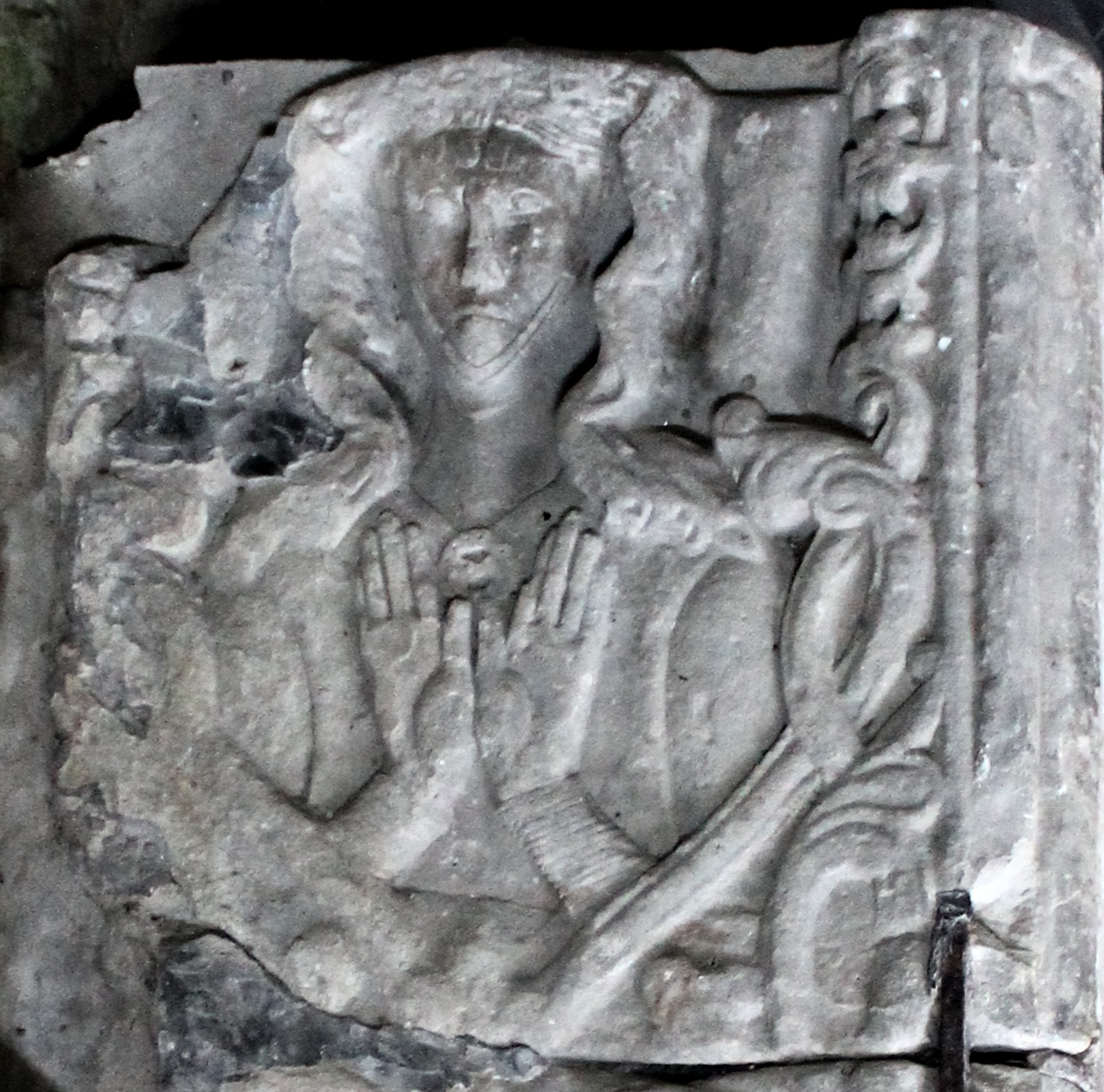 Church of St Mary and St Nicholas, Beaumaris, North Wales. Grade: I; Date Listed: 23 September 1950; Cadw Building ID: 5620.